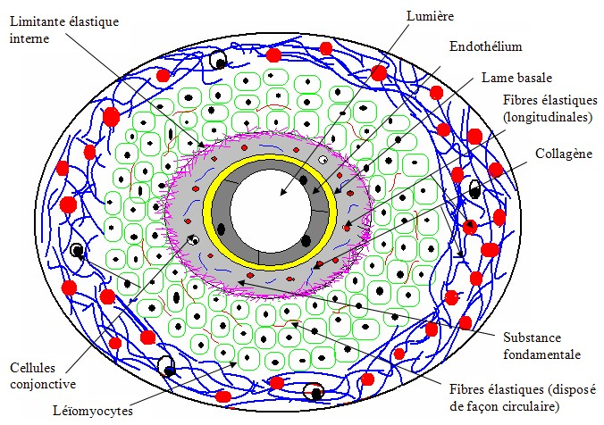 precapillary artery